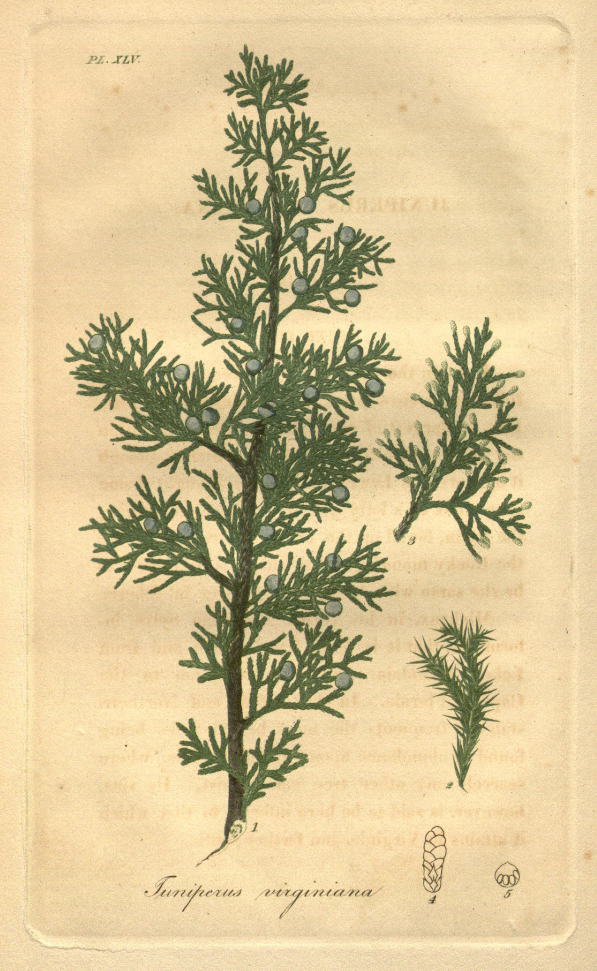 American medical botany :. Boston:Cummings and Hilliard,1817-1820..